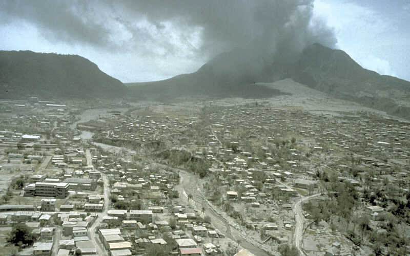 View E across ash-covered Plymouth, the former capital city and major port of Montserrat, toward Soufriere Hills volcano. Before the volcano became active in July 1995, about 5,000 people lived in Plymouth, located 4 km west of English's Crater. During the first two years of the eruption, ash and noxious gas from explosions and pyroclastic flows frequently settled on Plymouth. On August 3, about 3 weeks after this image was taken, the first significant pyroclastic flow swept through the evacuated town. The flow triggered many fires and caused extensive damage to buildings and community facilities by direct impact and burial.